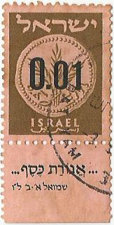 Agora stamp Issued at January 6, 1960